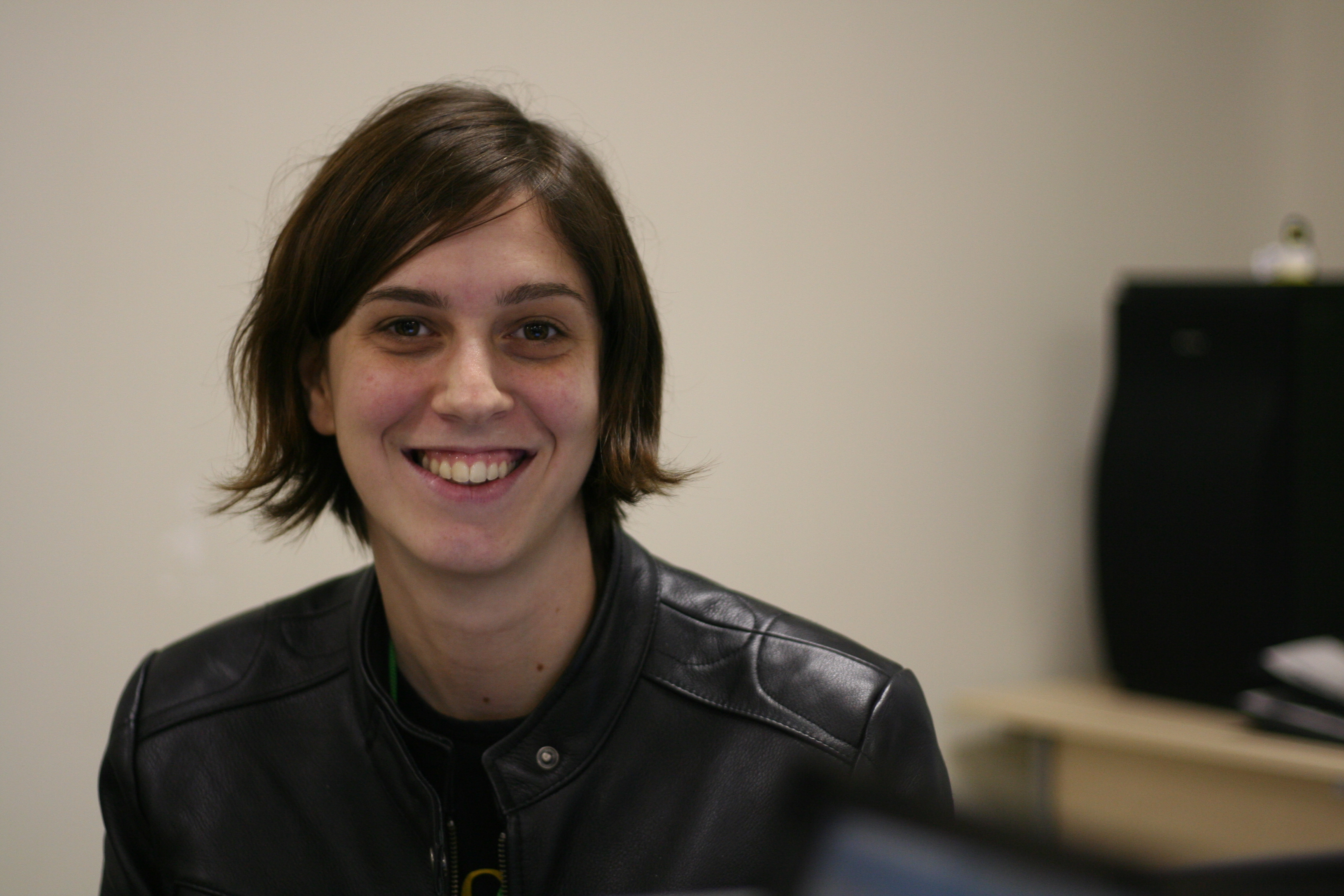 Fernanda G. Weiden at Latinoware 2008, Fórum do Gnome. Foz do Iguaçu, Brasil.